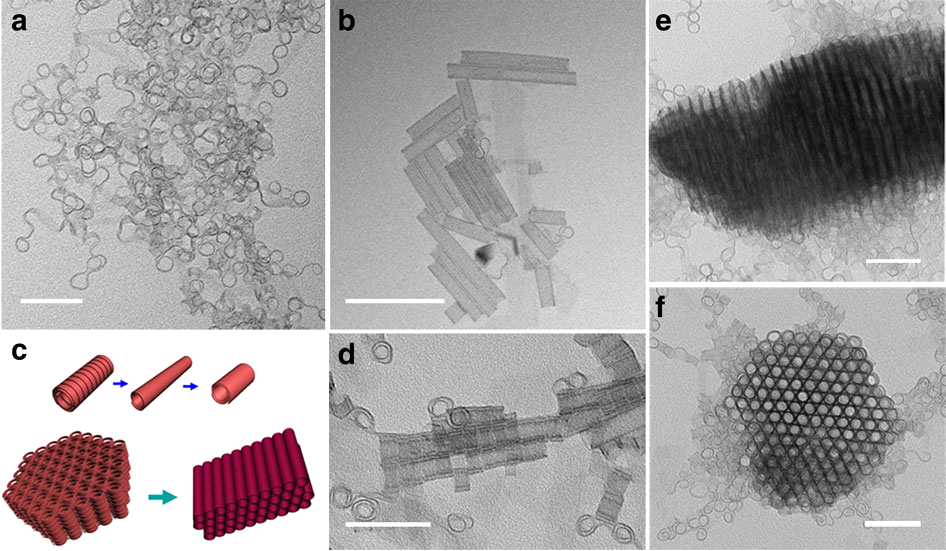 Indium(III) sulfide nanocoils can be synthesized at 180 °C (a), while increasing the temperature to 220 °C would result in SWNTs (b). Oriented attachments of nanocoils are found in some TEM images (d,e, side view; f, top view), suggesting a formation mechanism via the coiling of ultrathin nanocoils followed by oriented attachment (c). Scale bar: a,d,e,f, 50 nm; b, 100 nm.